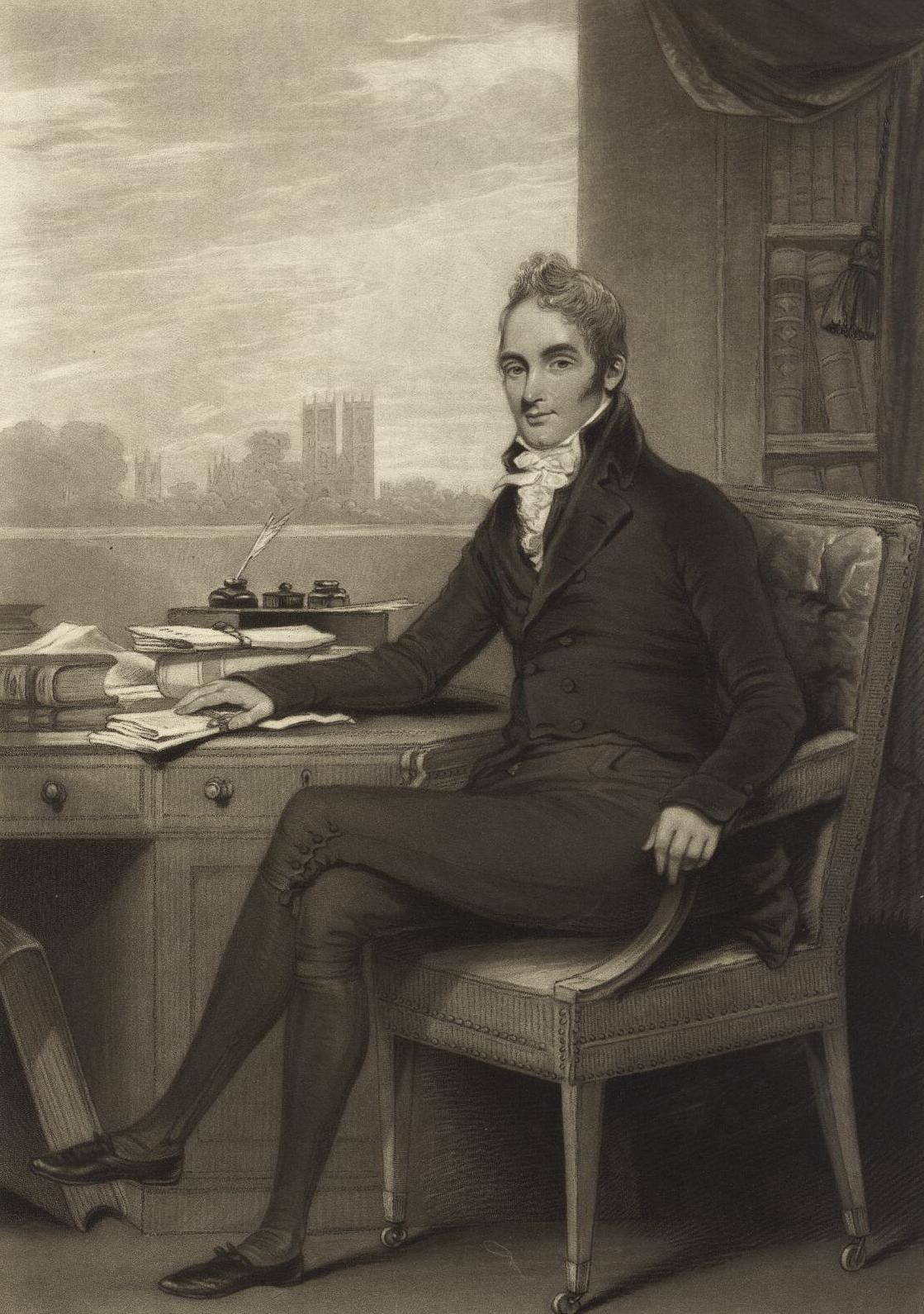 A portrait from the Welsh Portrait Collection at the National Library of Wales. Depicted person: Benjamin Hall, 1st Baron Llanover – British politician